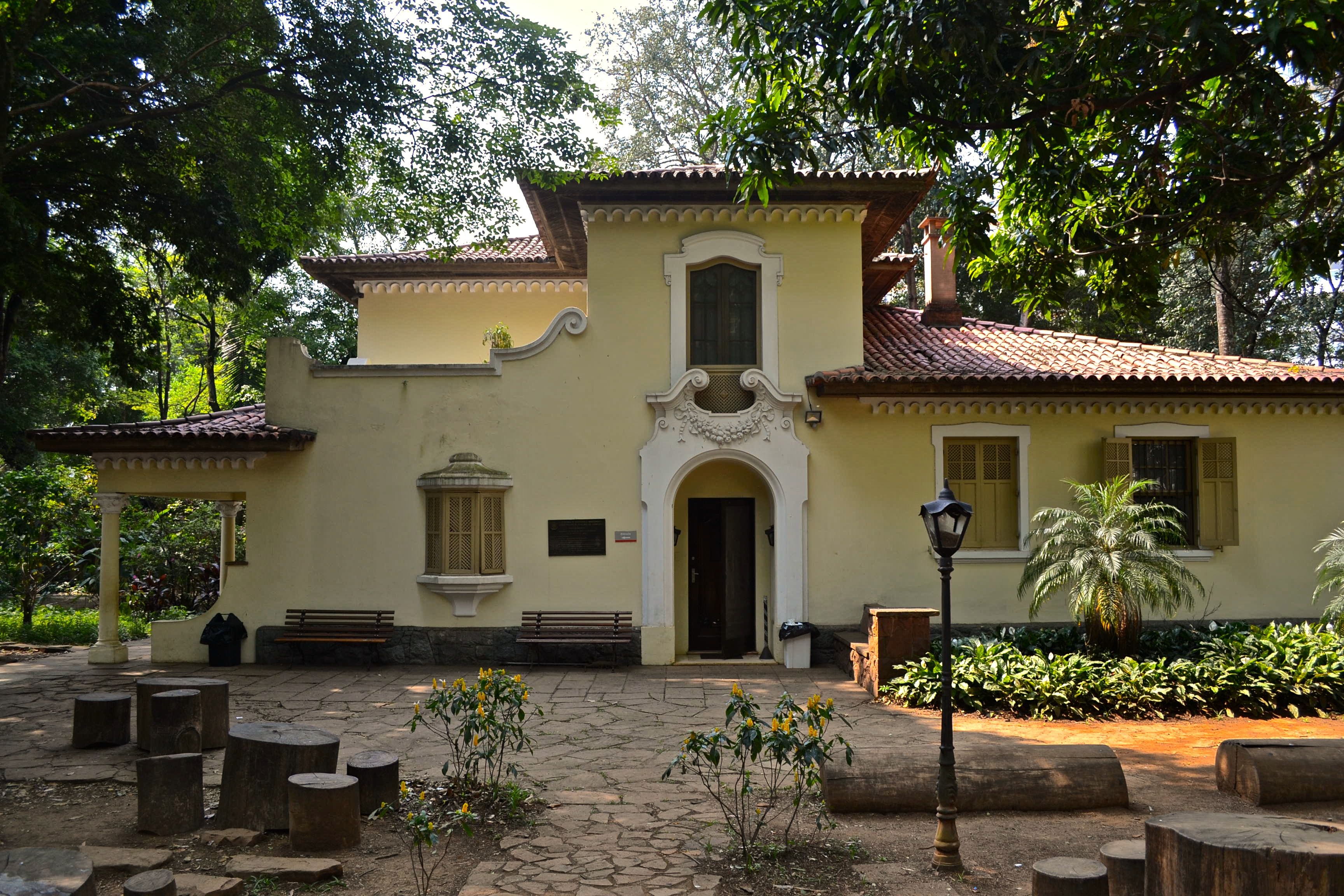 Fachada do Museu do Instituto Biológico, em São Paulo (SP), Brasil.